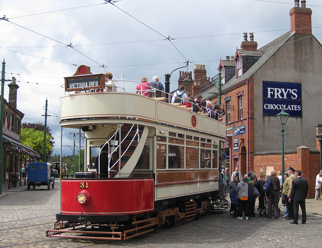 Beamish Museum, County Durham, England. This is the view west down the main street in Town, from its east end where the tramway curves to follow the street south. There is a combined tram/bus stop on the curve (waiting room on the right) - Tram No. 31 is seen here loading, during an east/south bound journey.